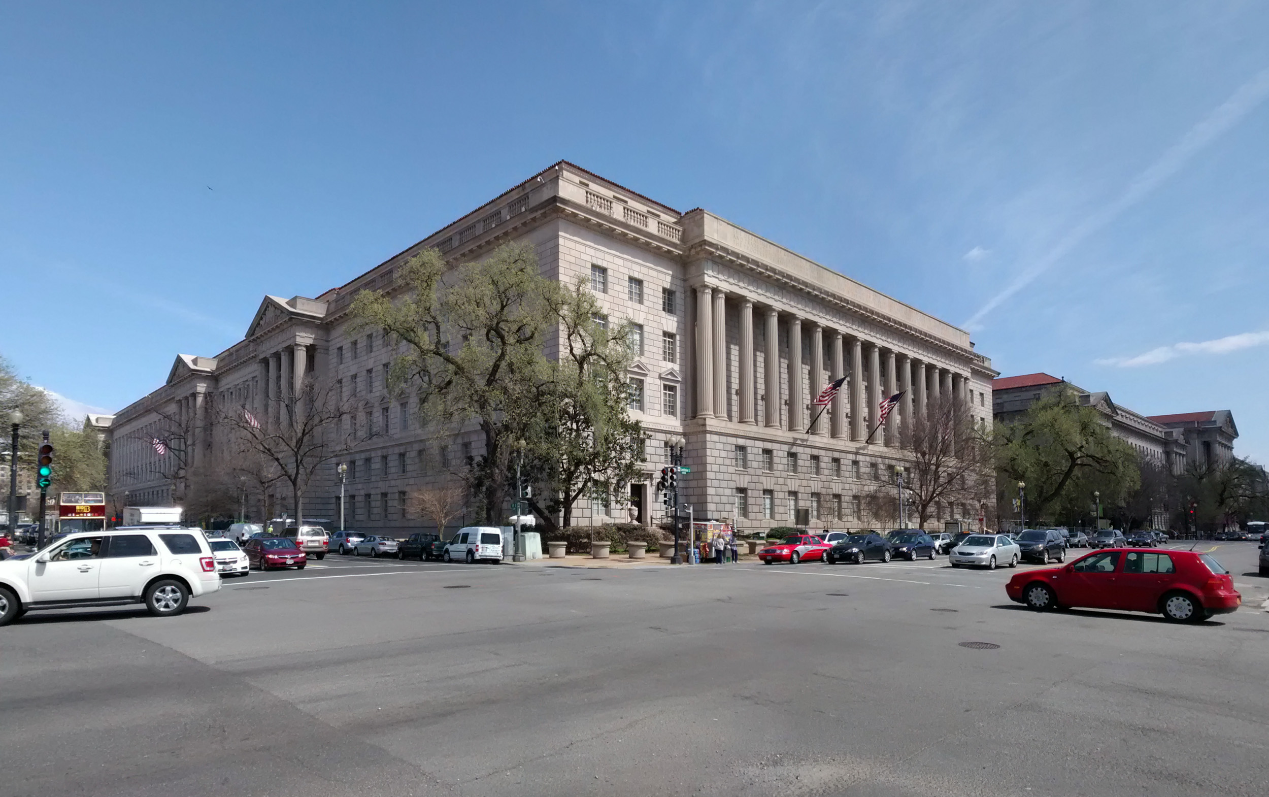 Herbert C. Hoover Building, Headquarters of the United States Department of Commerce, Louis Ayres, Constitution Avenue, Pennsylvania Avenue, Washington, D.C. Apr. 2014